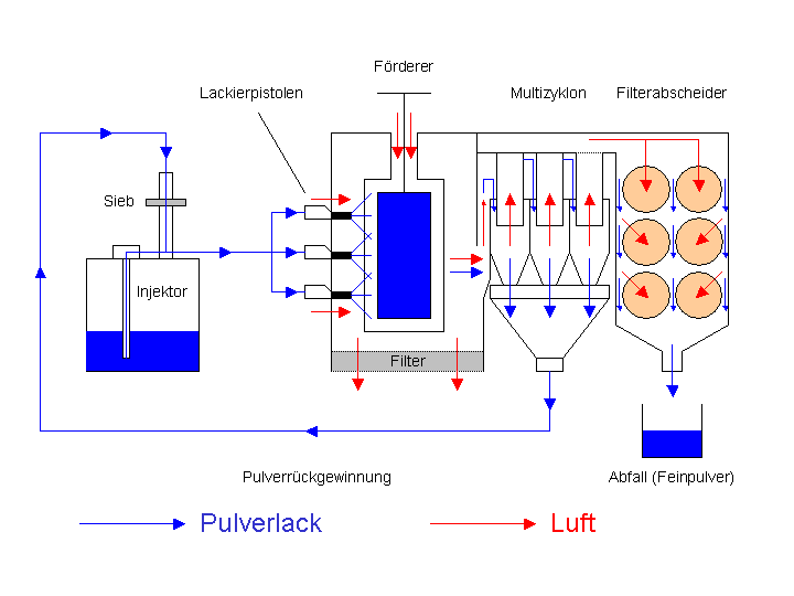 Flow Chart of a powder coating cabin